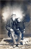 Photo of Ransom Henry Gile and his grandson, pre-1917